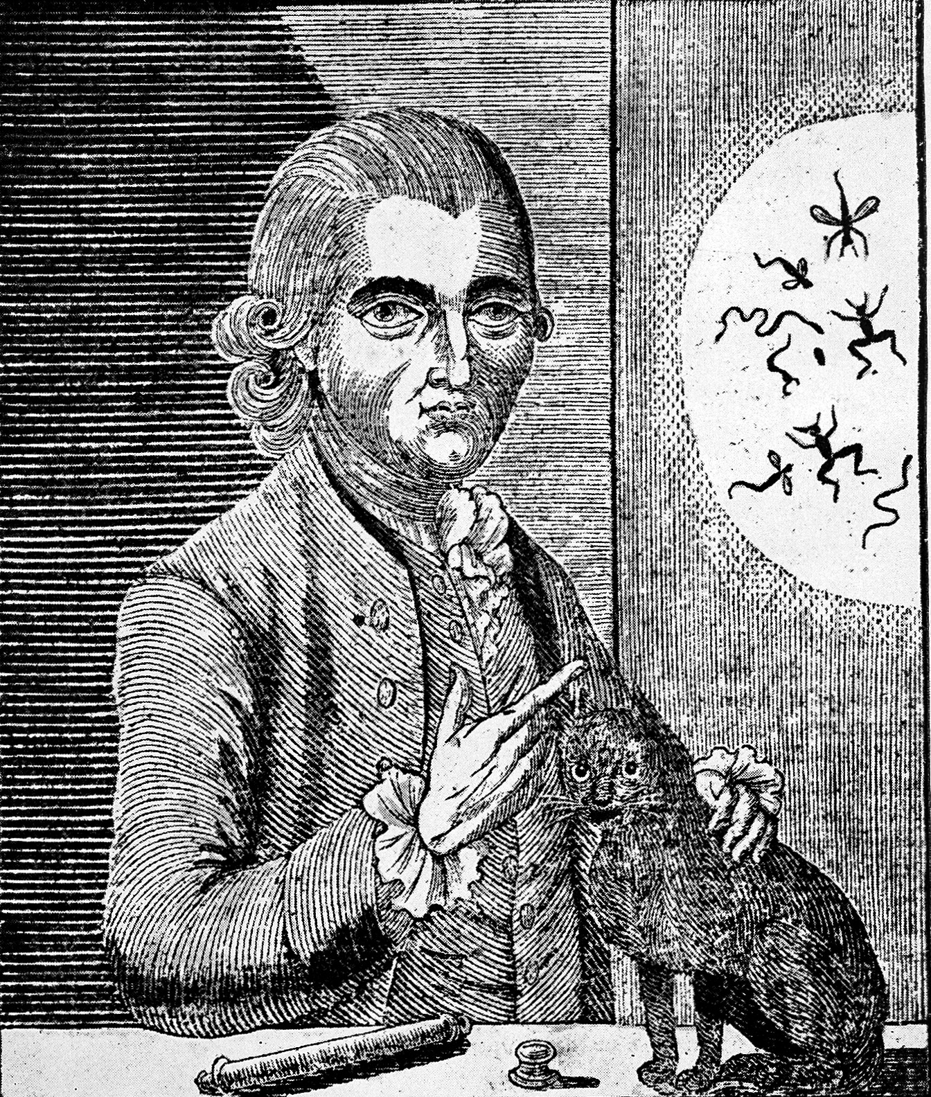 Engraving of G. Katterfelto with a black cat. General Collections